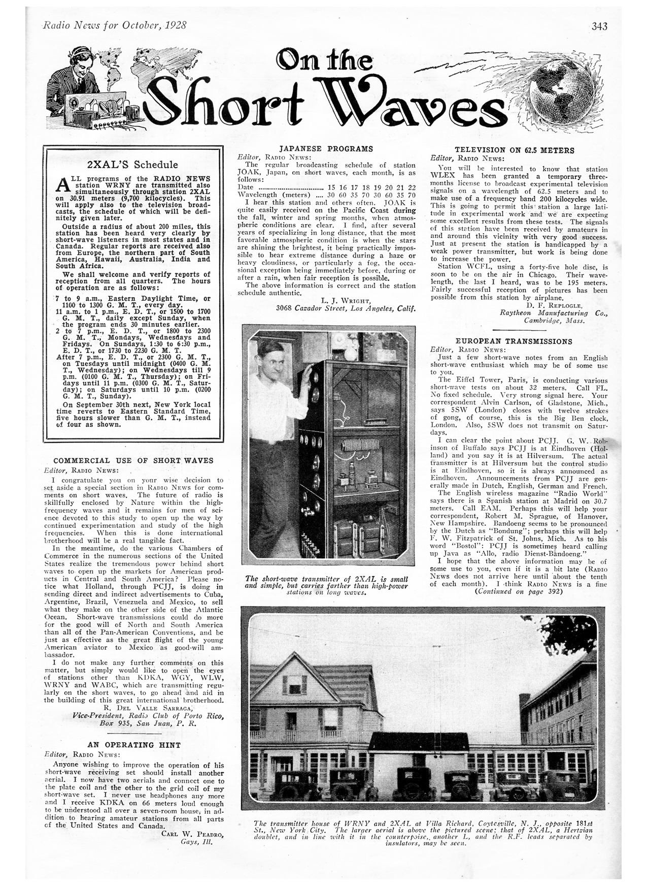 Experimenter Publishing's 2XAL Shortwave Station. Radio News, October 1928. Volume 10 Number 4. Published by Experimenter Publishing, New York, NY Editor-in-Chief and Publisher: Hugo Gernsback Table of Contents Image:Radio News Oct 1928 pg290.png The page numbers were on an annual basis, not per issue. This issue had pages 289 to 400. The magazine is 8.5 by 11.5 inches (23 by 29 cm).